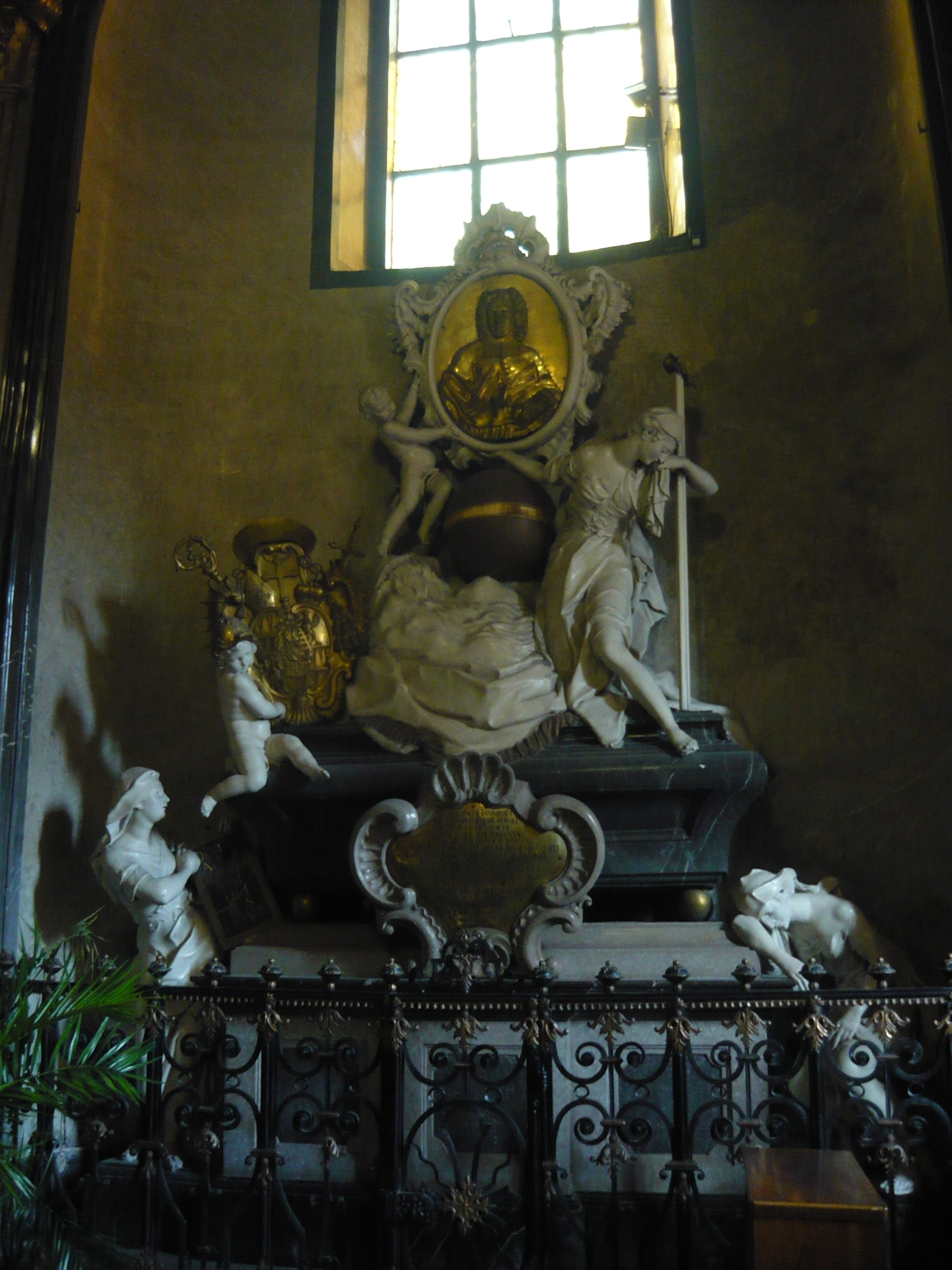 Headstone of Cardinal Wolfgang Hanibal Schrattenbach in chapel Mother of Sorrows in Saint Moritz church in Kromeriz. (Made by sculptor Andreas Zahner and goldsmith Johann Simon Forstner - 1750 - 1755)